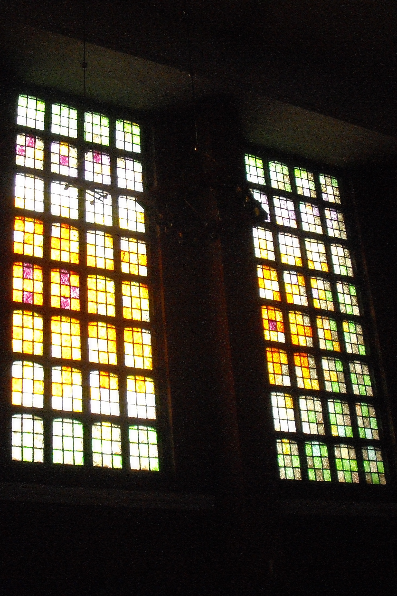 St. Anthony church Gdynia, glassworks